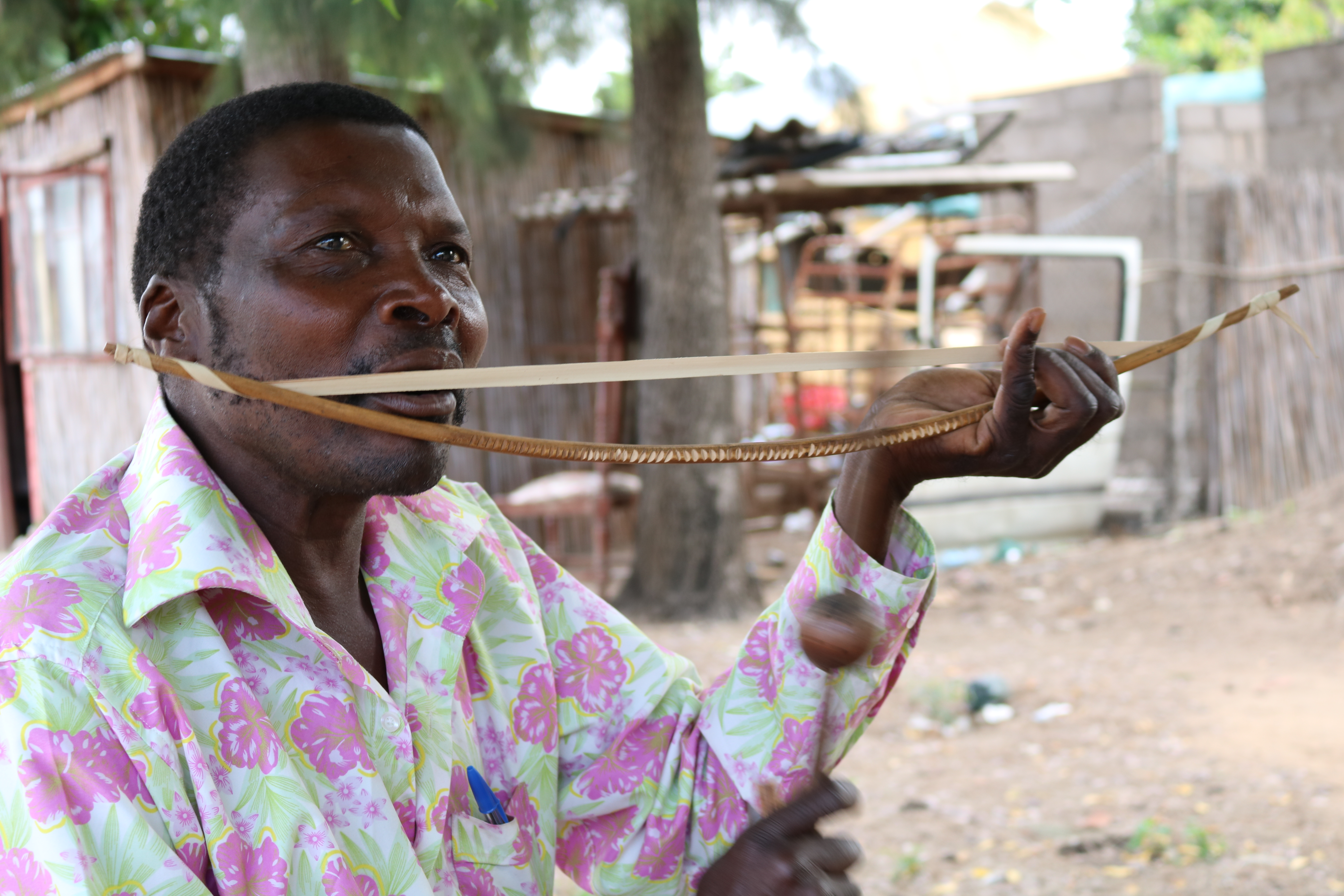 This is an image with the theme "Play" from: Mozambique